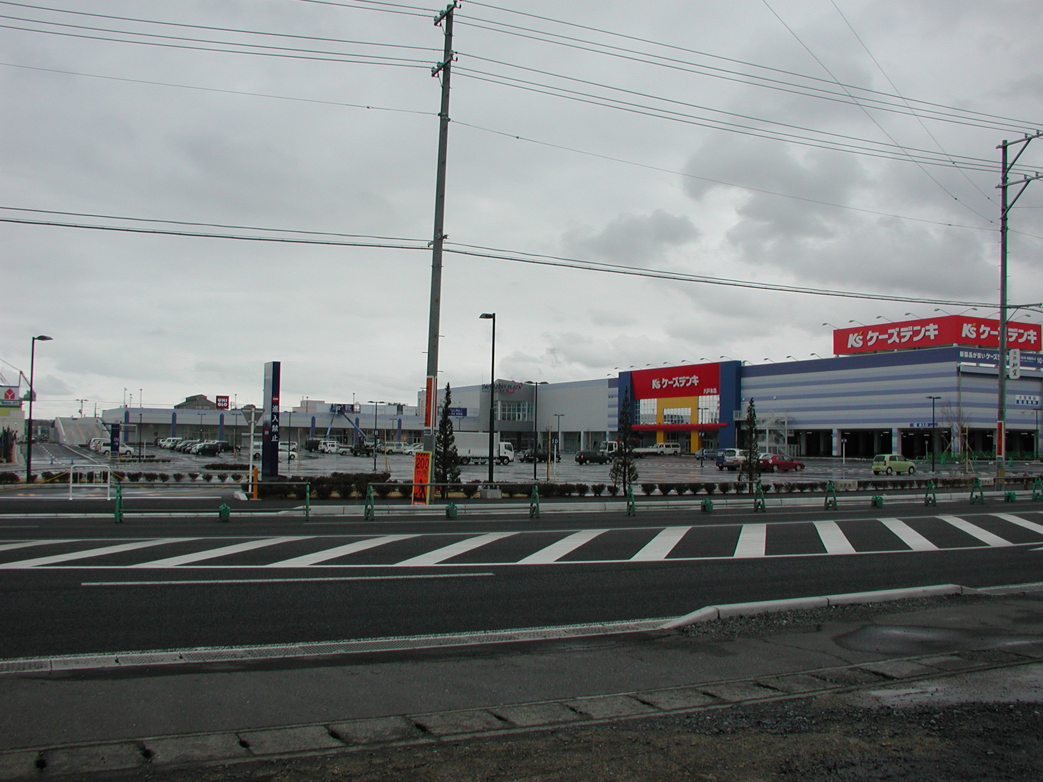 SYMPHONY PRAZA Numadate